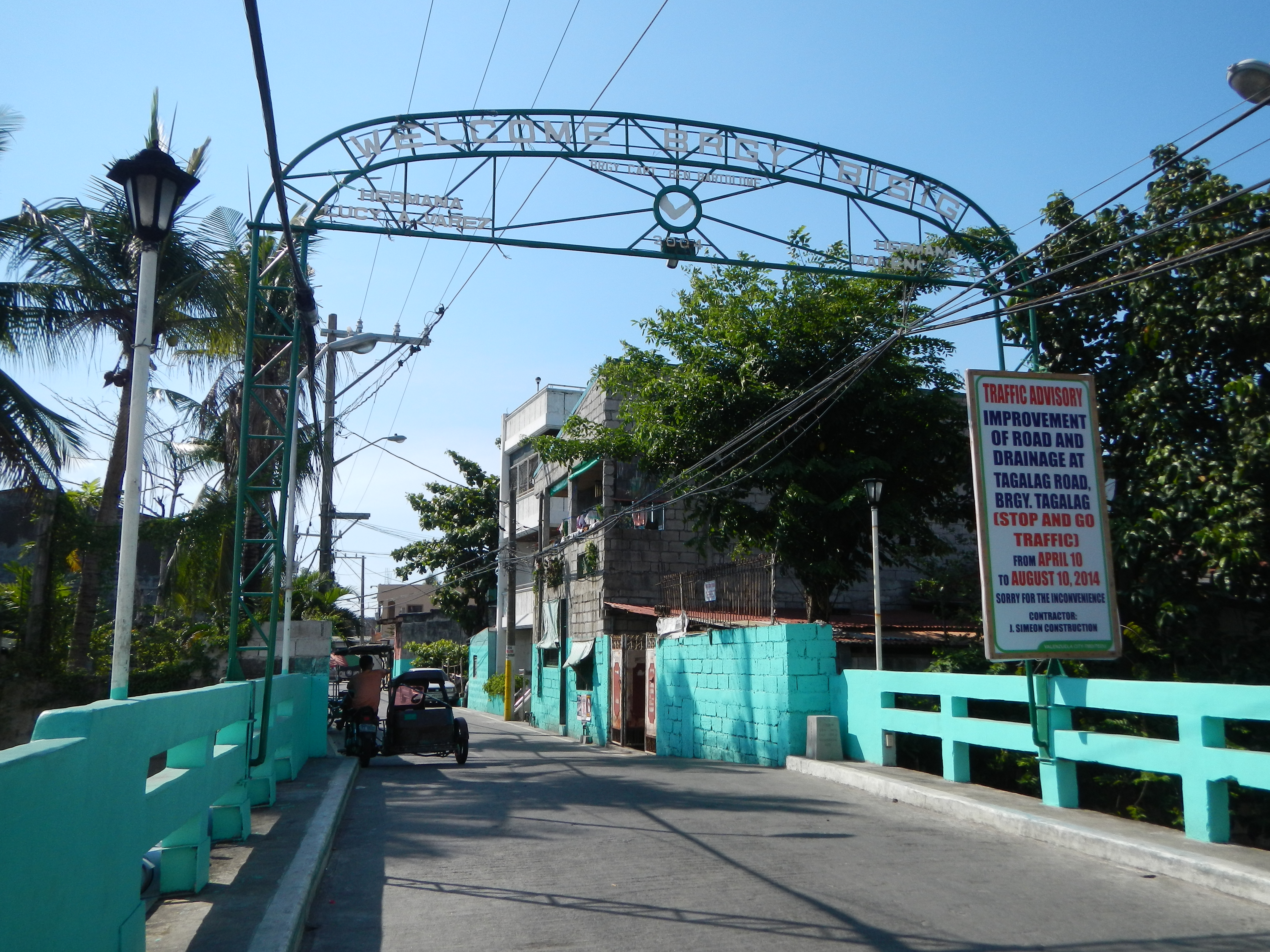 Barangay Hall, Chapel from Welcome arch of Bisig, Valenzuela Valenzuela, Philippines (List of barangays in Valenzuela- Valenzuela).